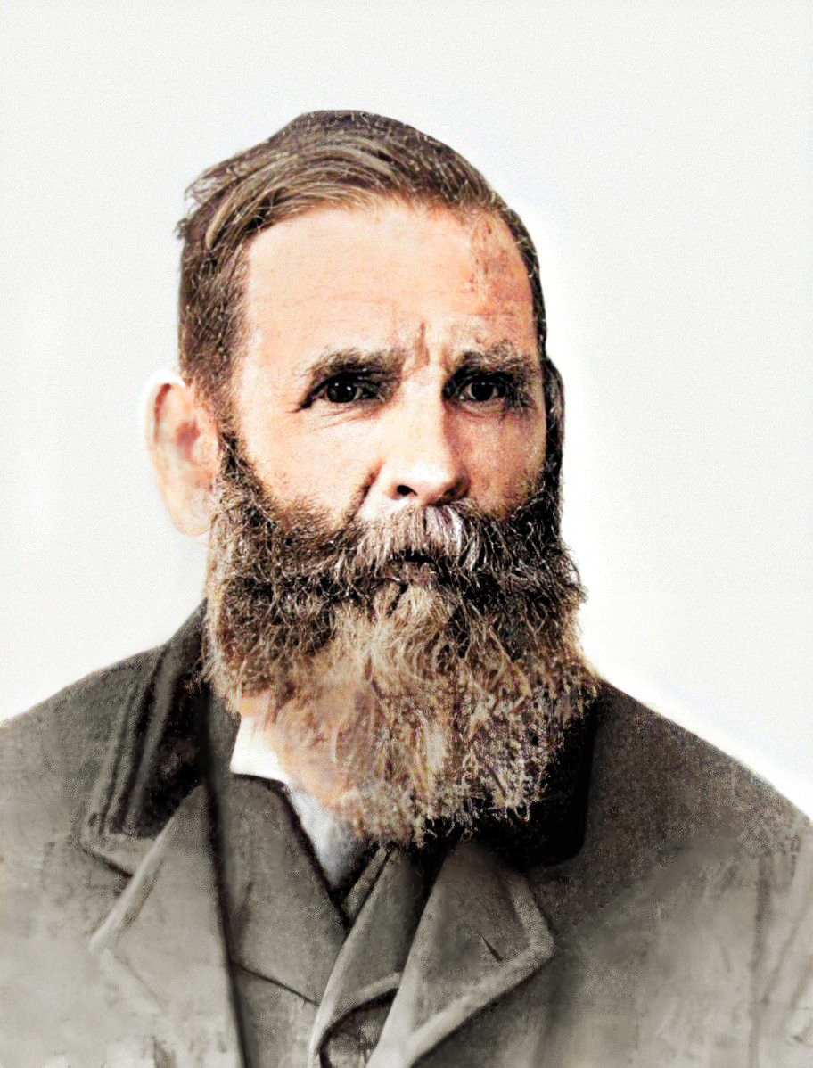 Edwin Cynrig Roberts, Chubut